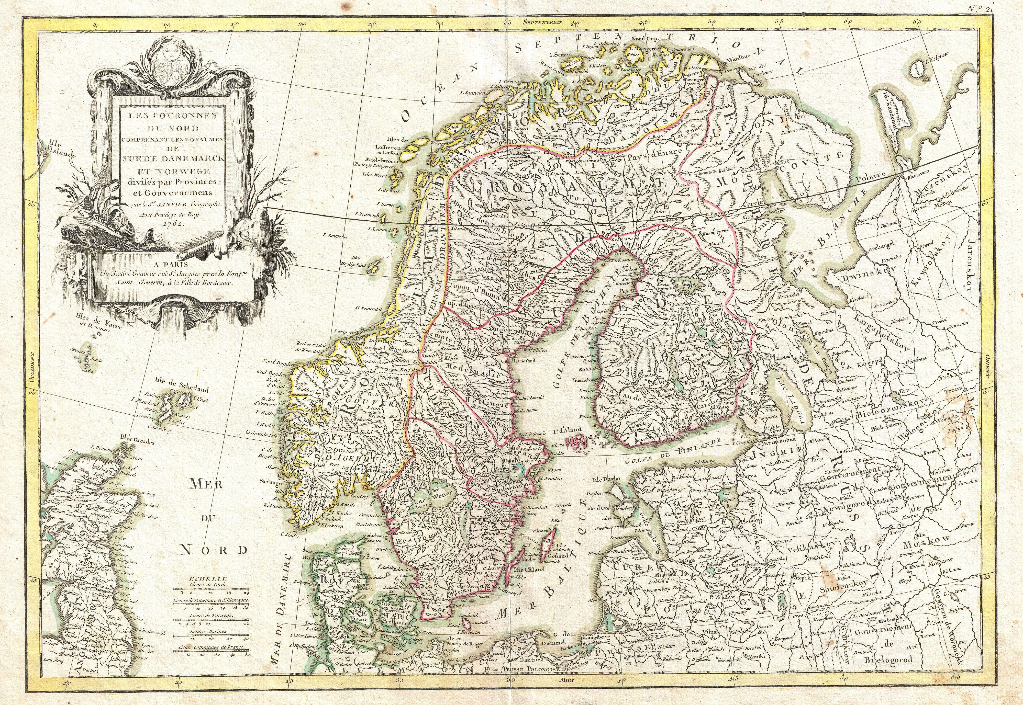 A beautiful example of Jan Janvier's 1762 decorative map of Scandinavia. Covers from Iceland and England eastward as far as Moscow, north to the Arctic Sea, and south as far as Denmark and Germany. Includes the modern day nations of Sweden, Denmark, Norway, and Finland. Identifies towns, cities, rivers, mountains, and some undersea features. Of particular interest is the legendary Lofoten Maelstrom in northwestern Norway. This legendary whirlpool was the inspiration for Edgar Allan Poe's classic tale "A Descent into the Maelstrom". In reality, it is a periodic and powerful current caused by tidal variations in the region. A large decorative title cartouche appears in the upper left quadrant. Drawn by J. Janvier c. 1762 for issue as plate no. 21 in Jean Lattre's 1776 issue of the Atlas Moderne .